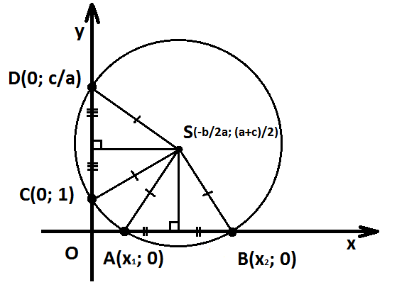 Квадратное уравнение, построения с помощью циркуля и линейки